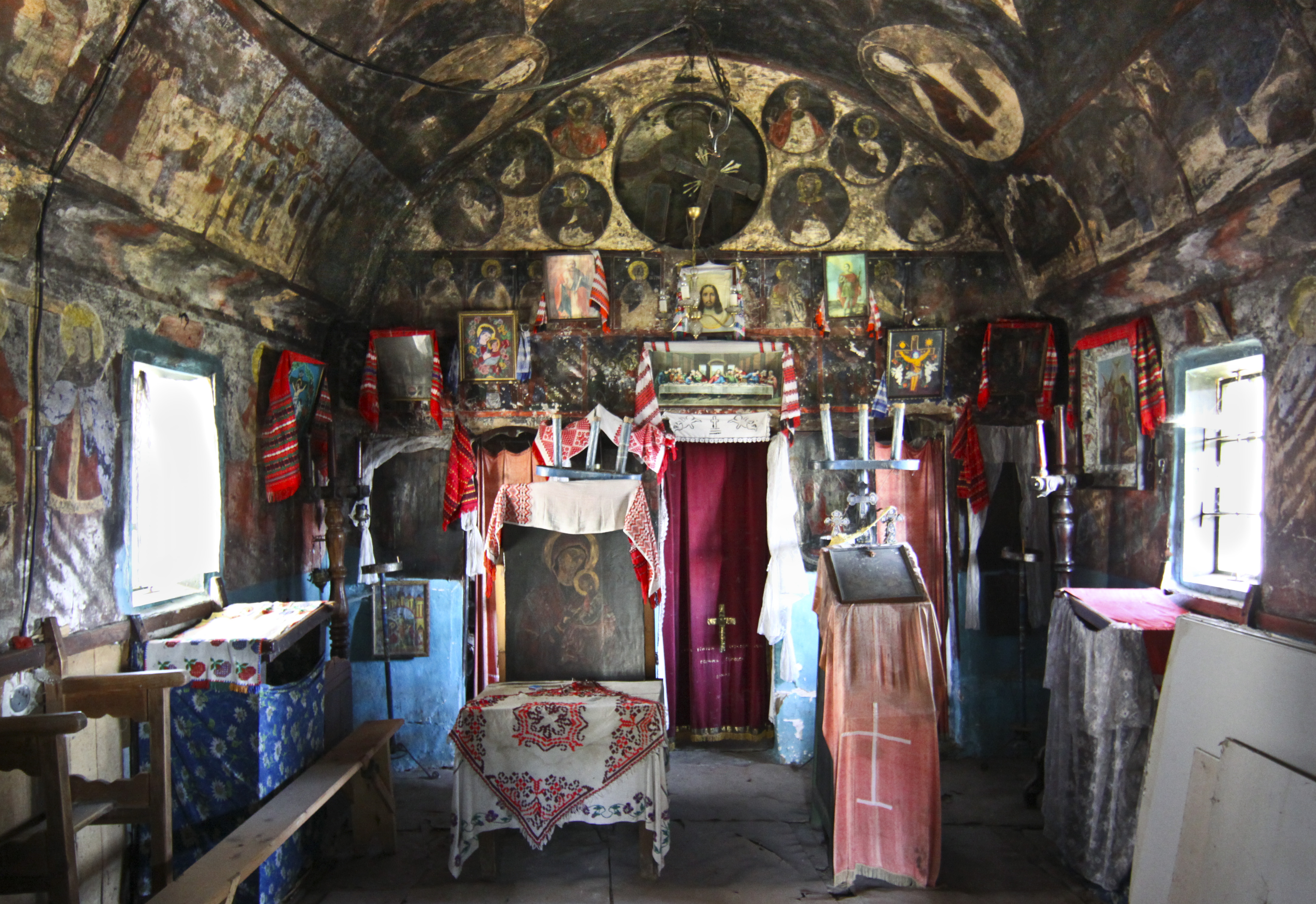 Urecheşti, Argeş county, Romania: the wooden church.